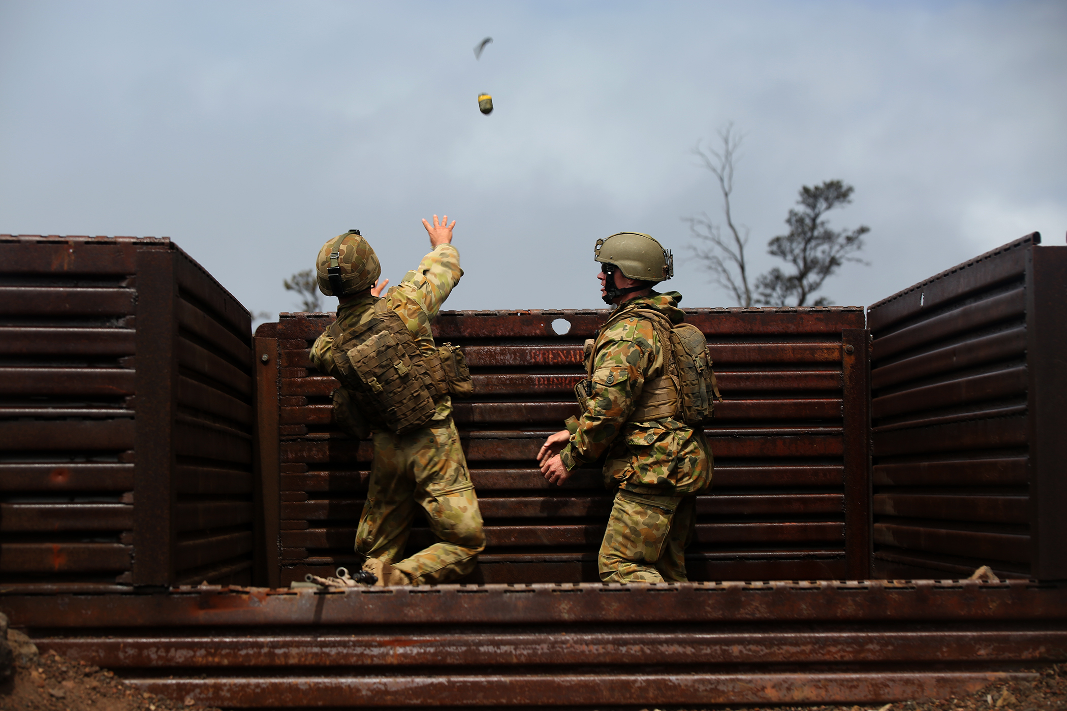 POHAKULOA TRAINING AREA, Hawaii - - POHAKULOA TRAINING AREA, Hawaii - Australian Army soldiers with Company Landing Team 2 throw a grenade at Range 5C in Pohakuloa Training Area, Hawaii, July 20, during Rim of the Pacific (RIMPAC) Exercise 2014.